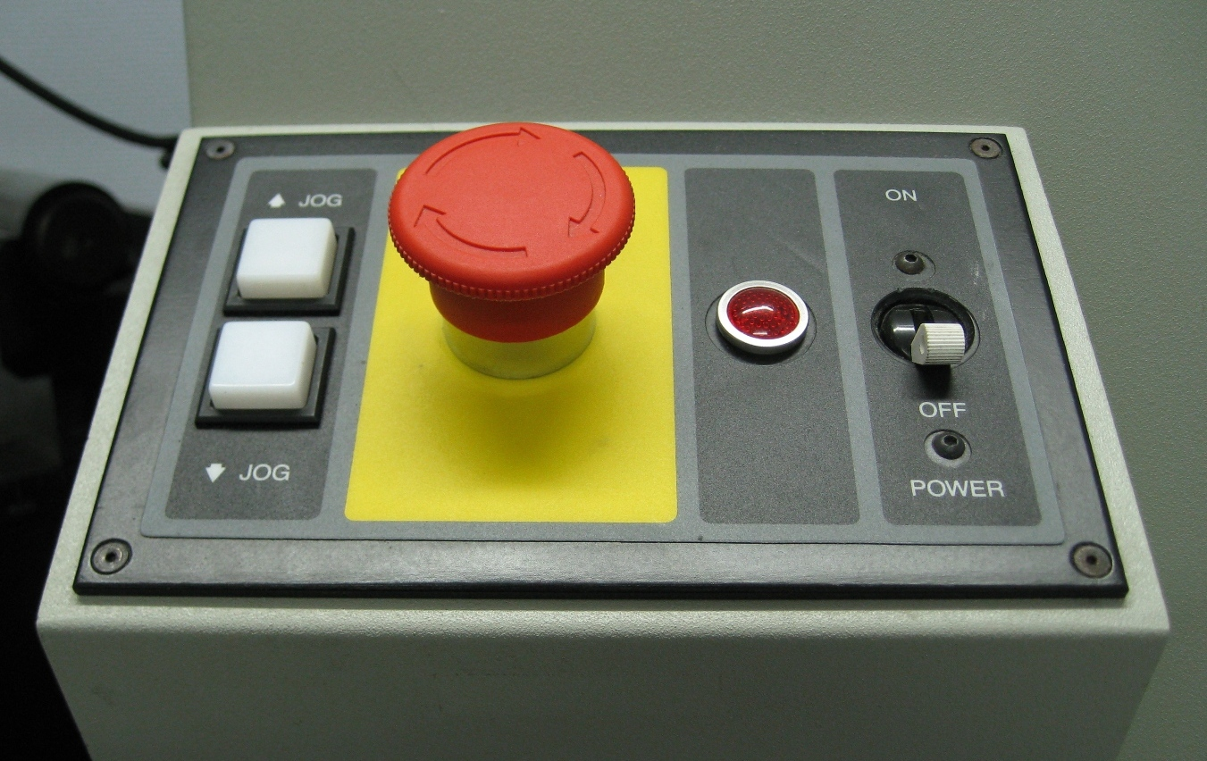 Emergency stop button (red on yellow background) on a control board of a tensile machine in a laboratory.